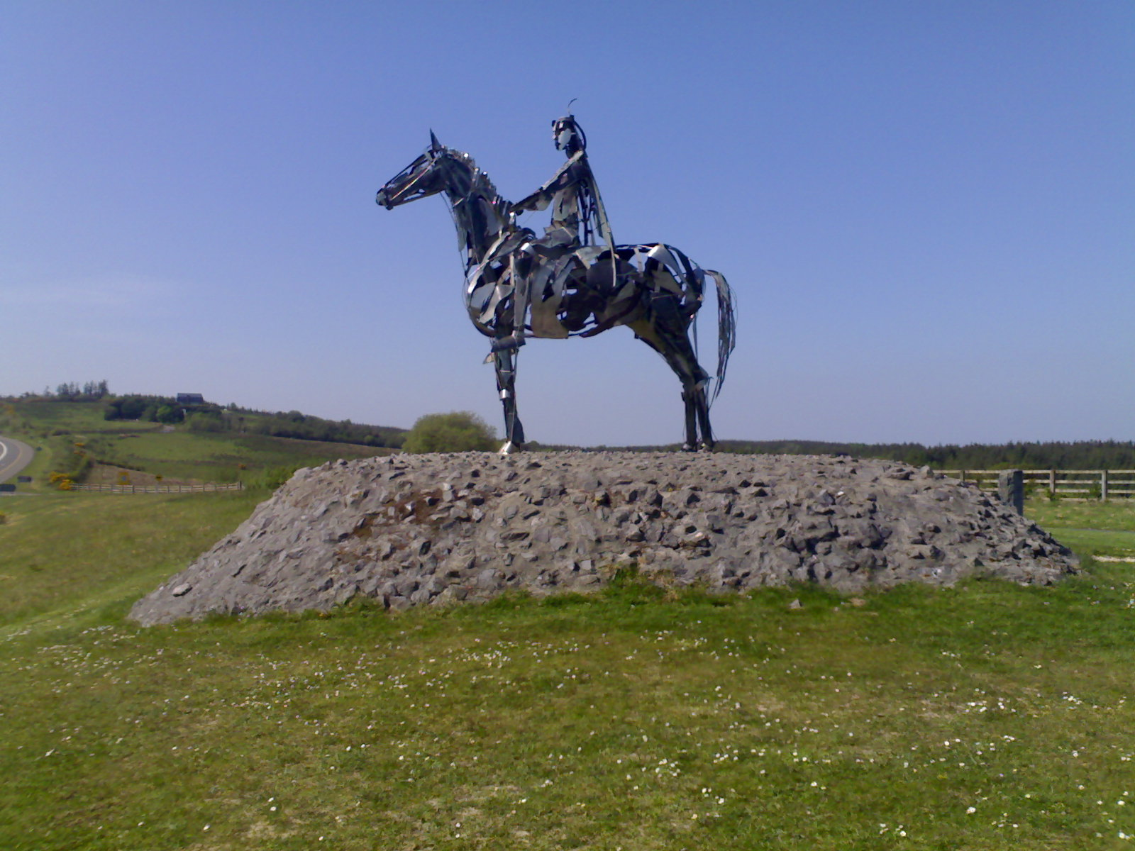 Gaelic Chieftain_overlooking_Curlew_Pass.jpg - Maurice Harron sculpture 1999 to mark Battle of Curlew Pass 15 August 1599 Camera Phone Own work Peter Gavigan May 2007